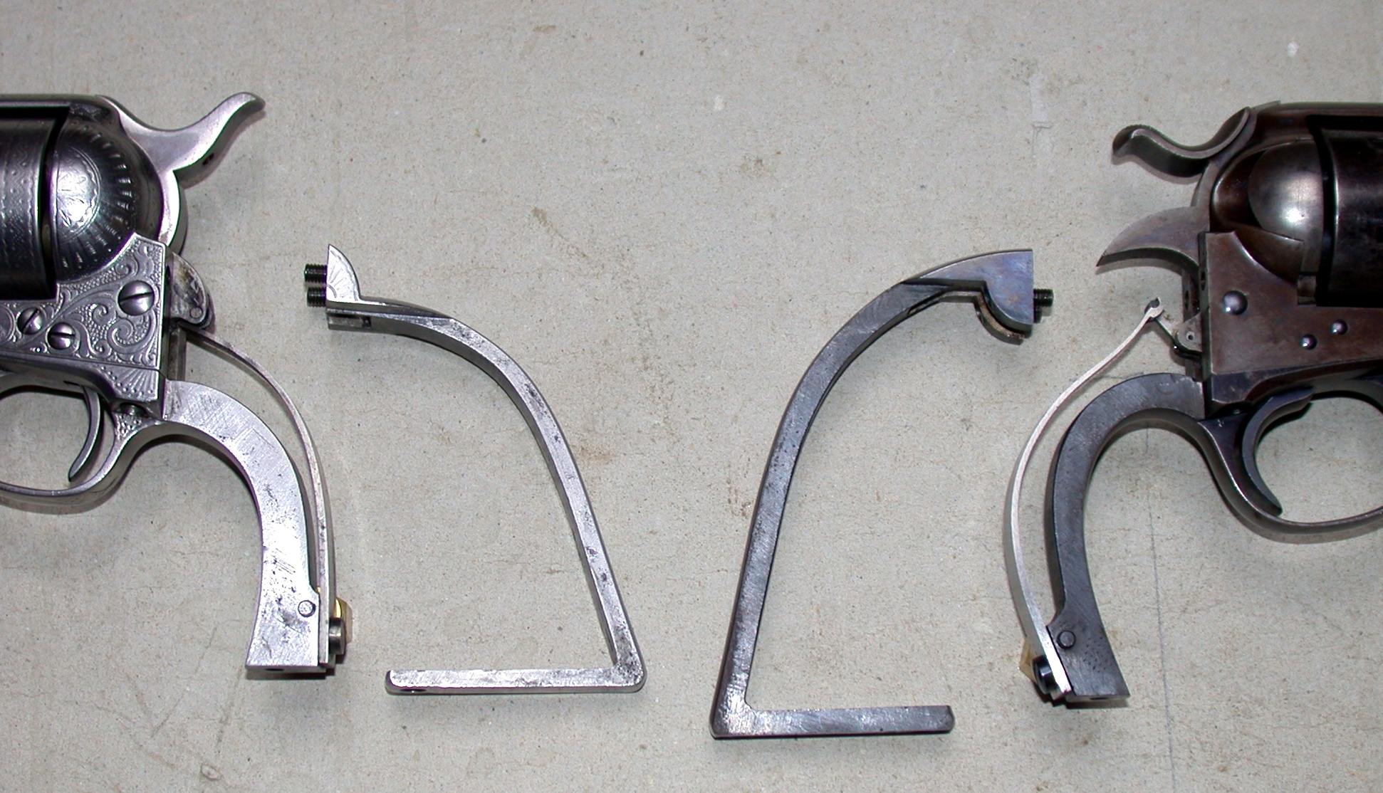 Colt SAA / Colt Bisley, differences